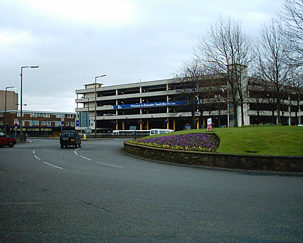 Doncaster South Bus Station.